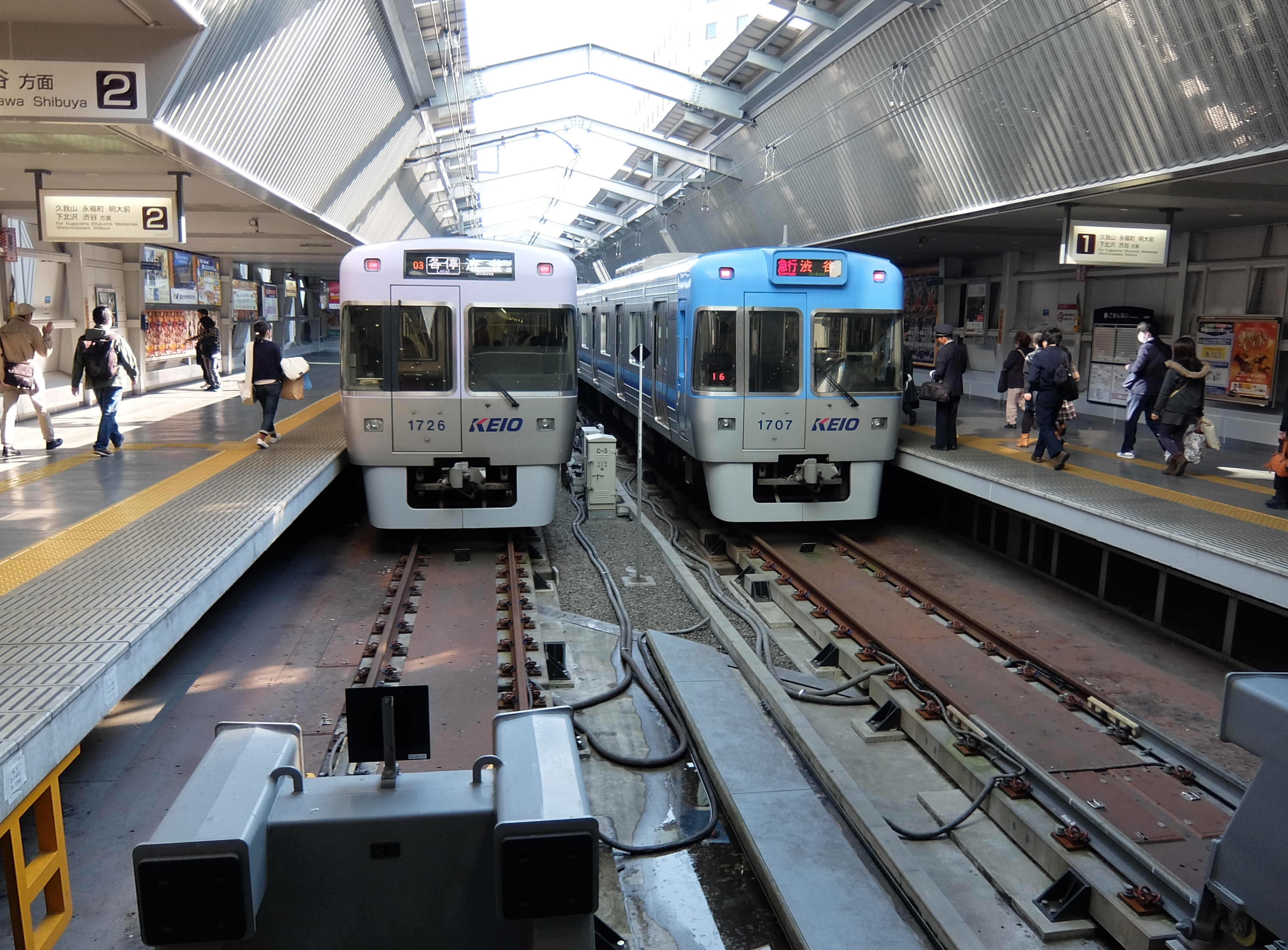 Keio 1000 series EMUs at the buffer stops at Kichijoji Station on the Keio Inokashira Line